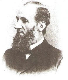 John George Butler, former Secretary of the United States House of Representatives